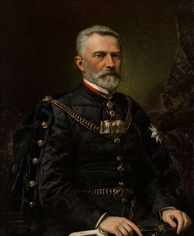 József Szlávy de Érkenéz et Okány Prime Minister of the Kingdom of Hungary